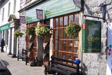 Photo by Shaun Bythell